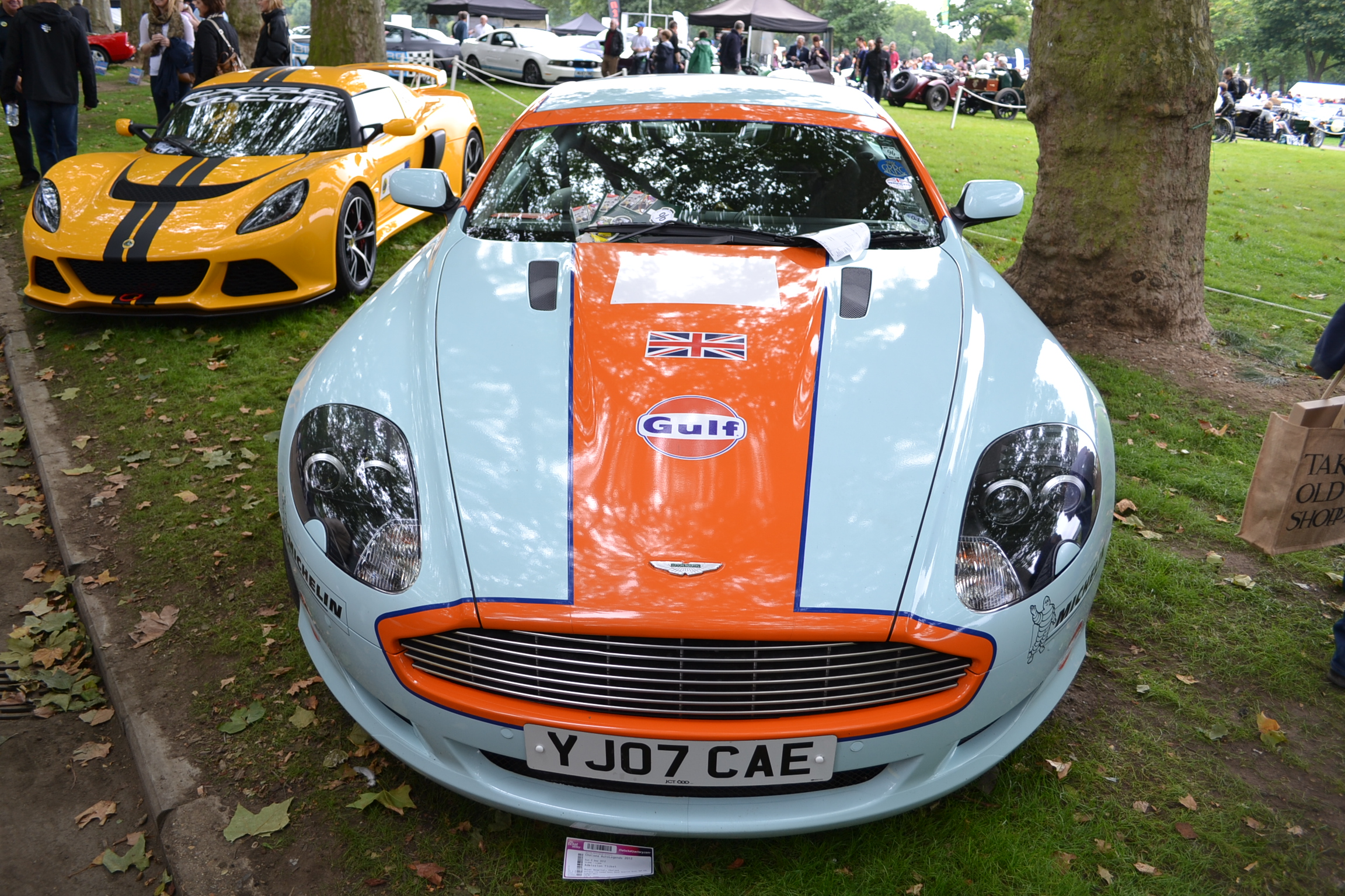 Chelsea Auto Legends 2012